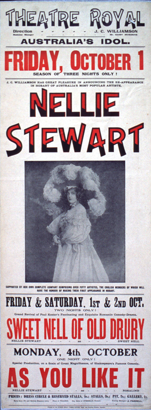 Poster for 1909 shows starring Nellie Stewart